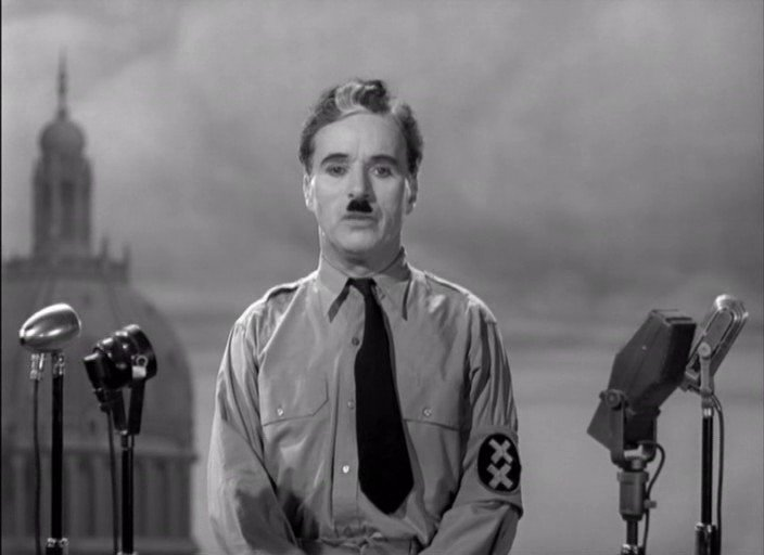 Charlie Chaplin from the end of film The Great Dictator (1940).